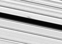 A new moon (S/2010 S 2)